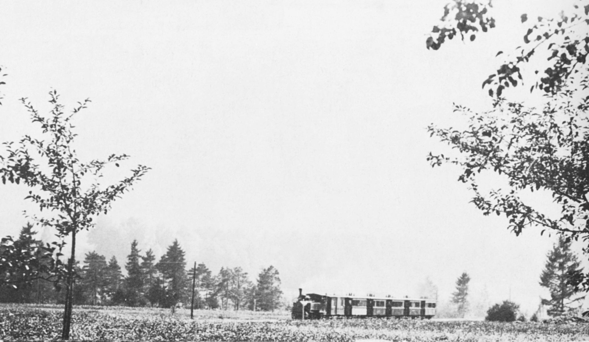 A train of the Salzkammergut-Lokalbahn near Aschau